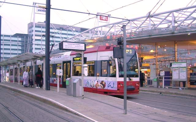 Tramlink stop at East Croydon railway station - London, England